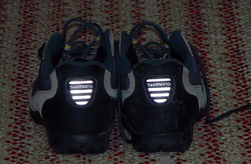 A pair of cycling shoes with reflectors visible. The light source is a flash a few centimeters above camera lens. Photographed by User:Kristian Ovaska on 2005-12-23.